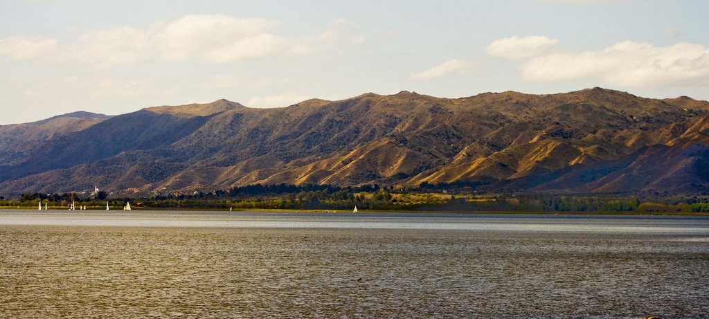 Mountain range (Sierras de Córdoba) in Cordoba province, Argentina.